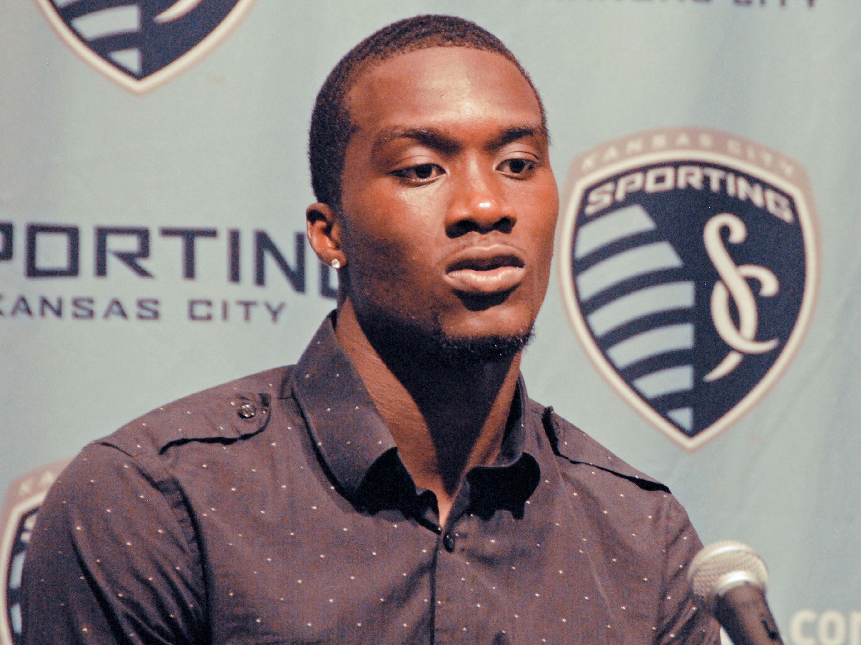 C.J. Sapong of Sporting Kansas City at a press conference in June 2011. Sporting KC v San Jose Earthquakes @ LIVESTRONG Sporting Park